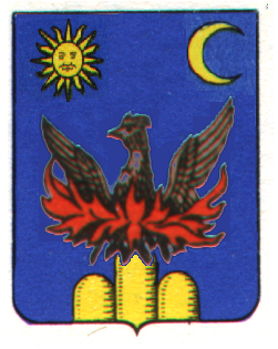 coat of arms noble Clemente from Castelbasso (TE), Notaresco (TE), Roseto degli Abruzzi (TE)